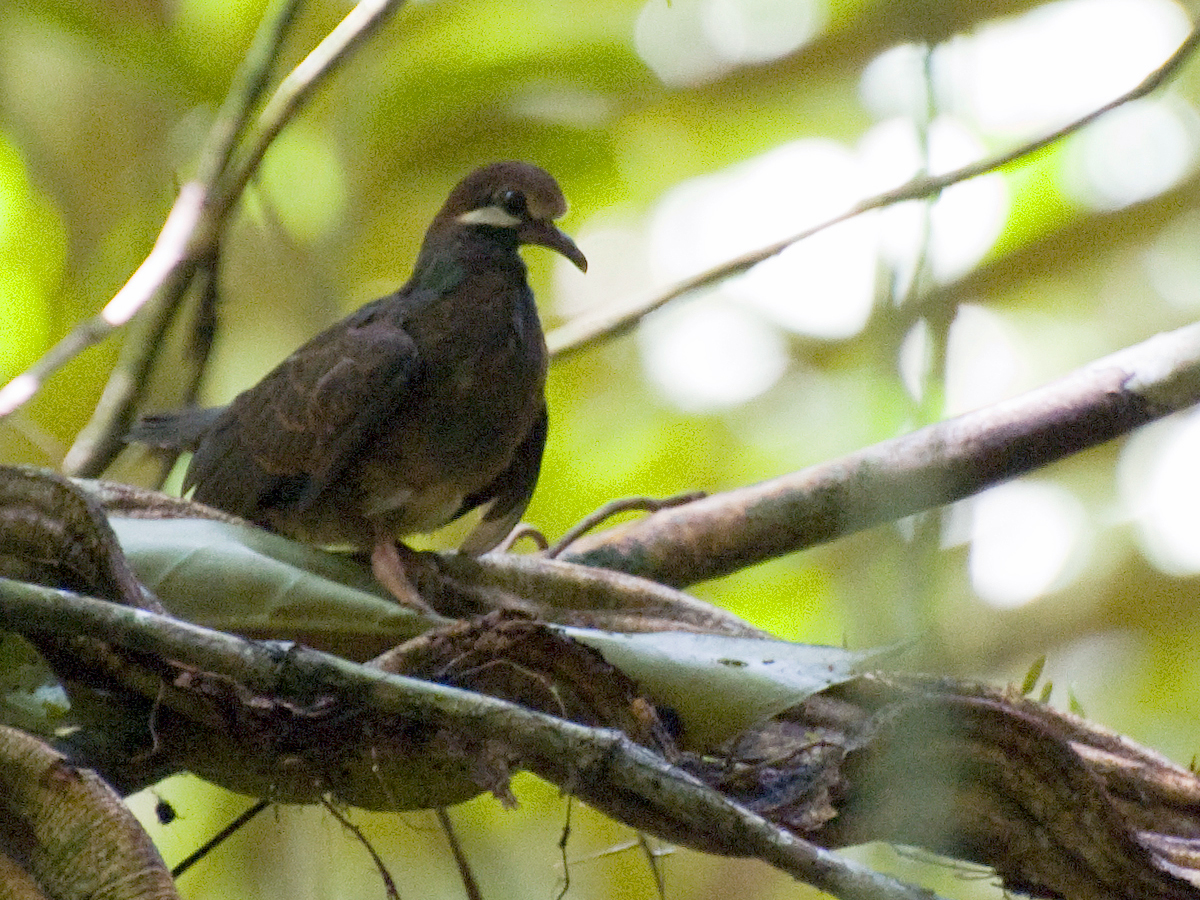 Olive-backed Quail-dove Leptotrygon veraguensis, Selva Verde, Costa Rica